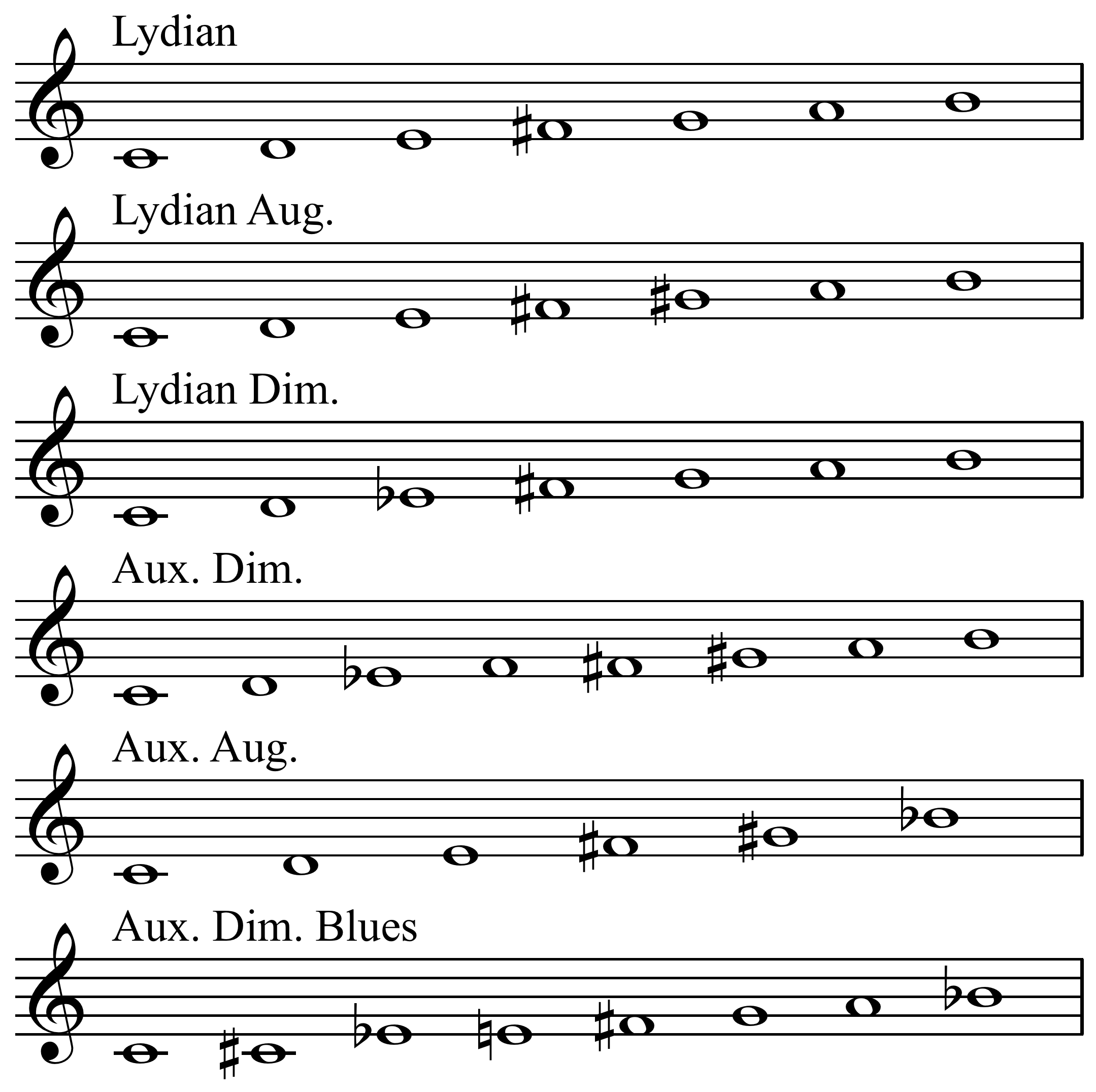 George Russell's original six Lydian scales. Lydian, Lydian augmented, "Lydian diminished", octatonic (2-1), whole-tone, octatonic (1-2).